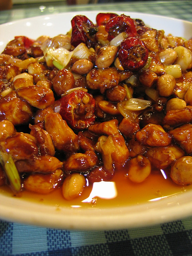 Traditional Gongbao jiding (Kung Pao Chicken; 宮保雞丁; Gōng bǎo jī dīng).